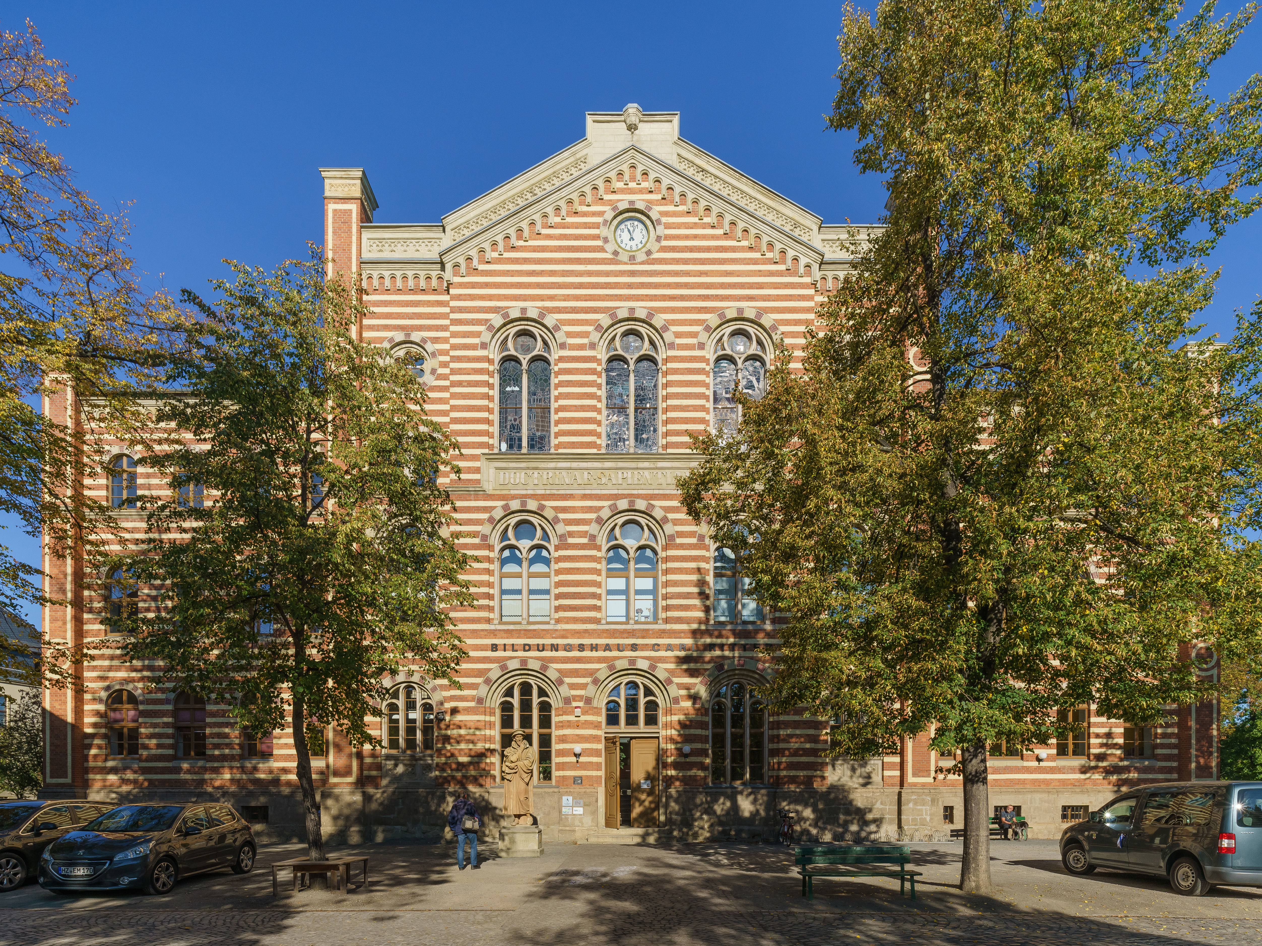 Educational building in Quedlinburg, Germany